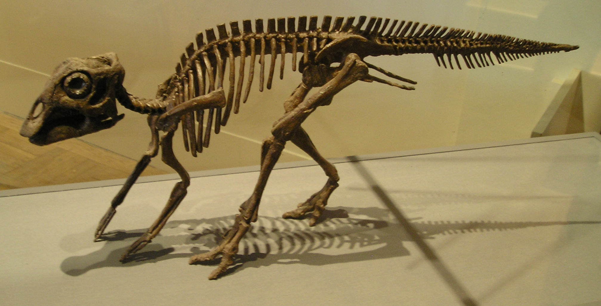 Baby Maiasaur skeleton, Maiasaur from the Royal Ontario Museum, Toronto.